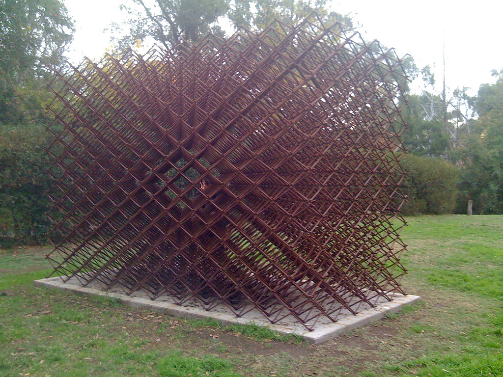 Sculpture by Neil Taylor at Heide Museum of Modern Art in Melbourne/Australia Posted via email from Clovenhoof